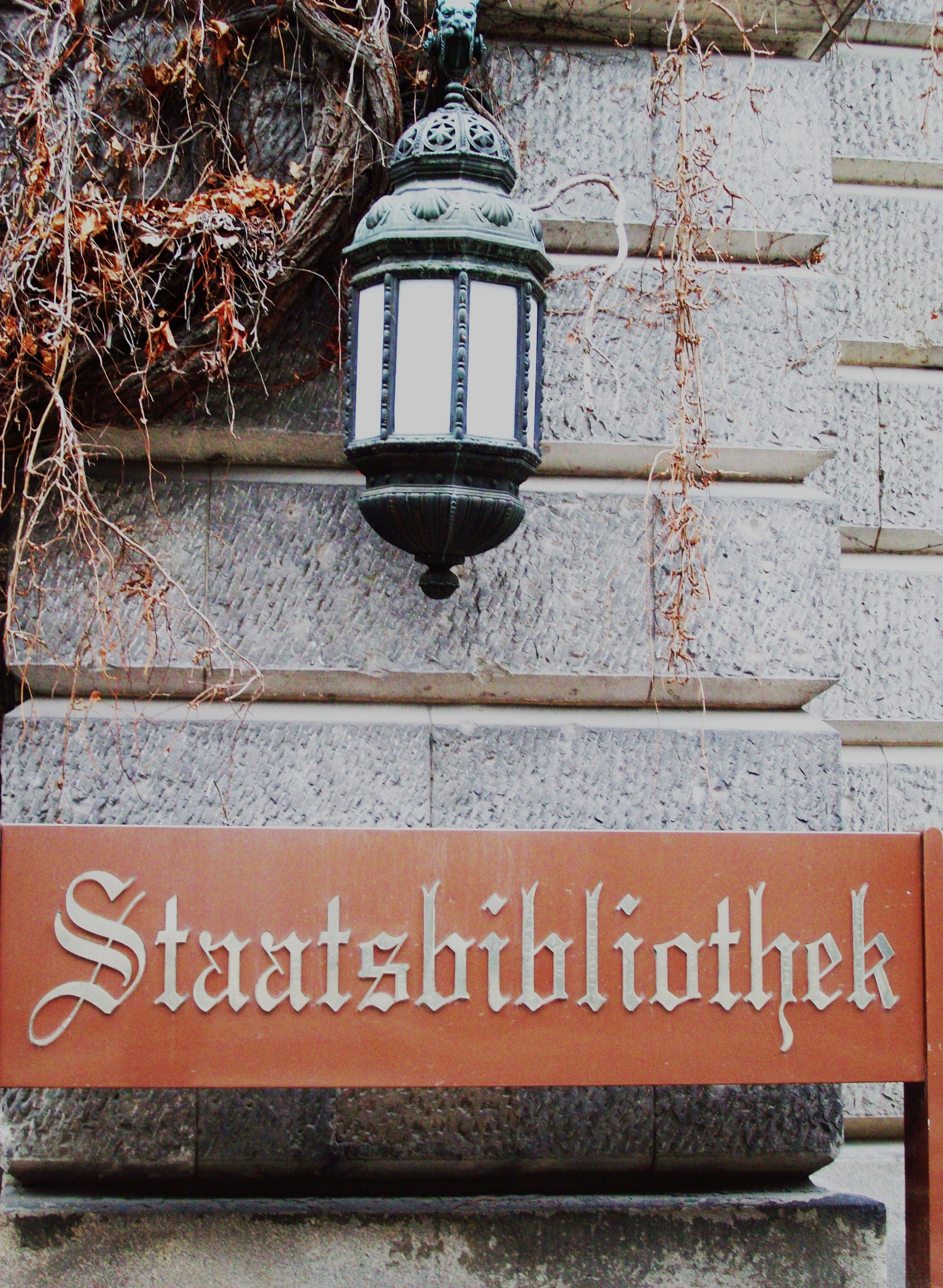 Staatsbibliothek Berlin, Unter den Linden.